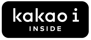 kakao i inside logo